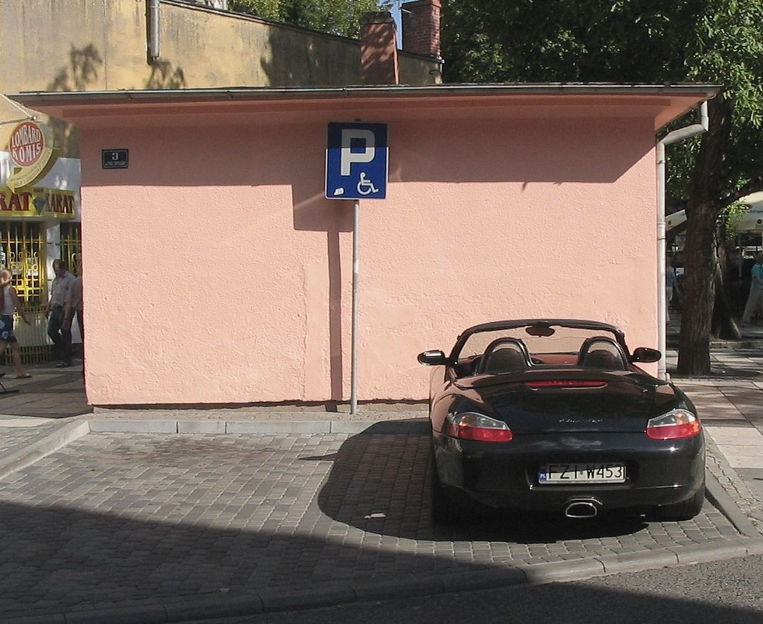 A parking zone for the handicapped. Zielona Góra, Poland Author:Mohylek